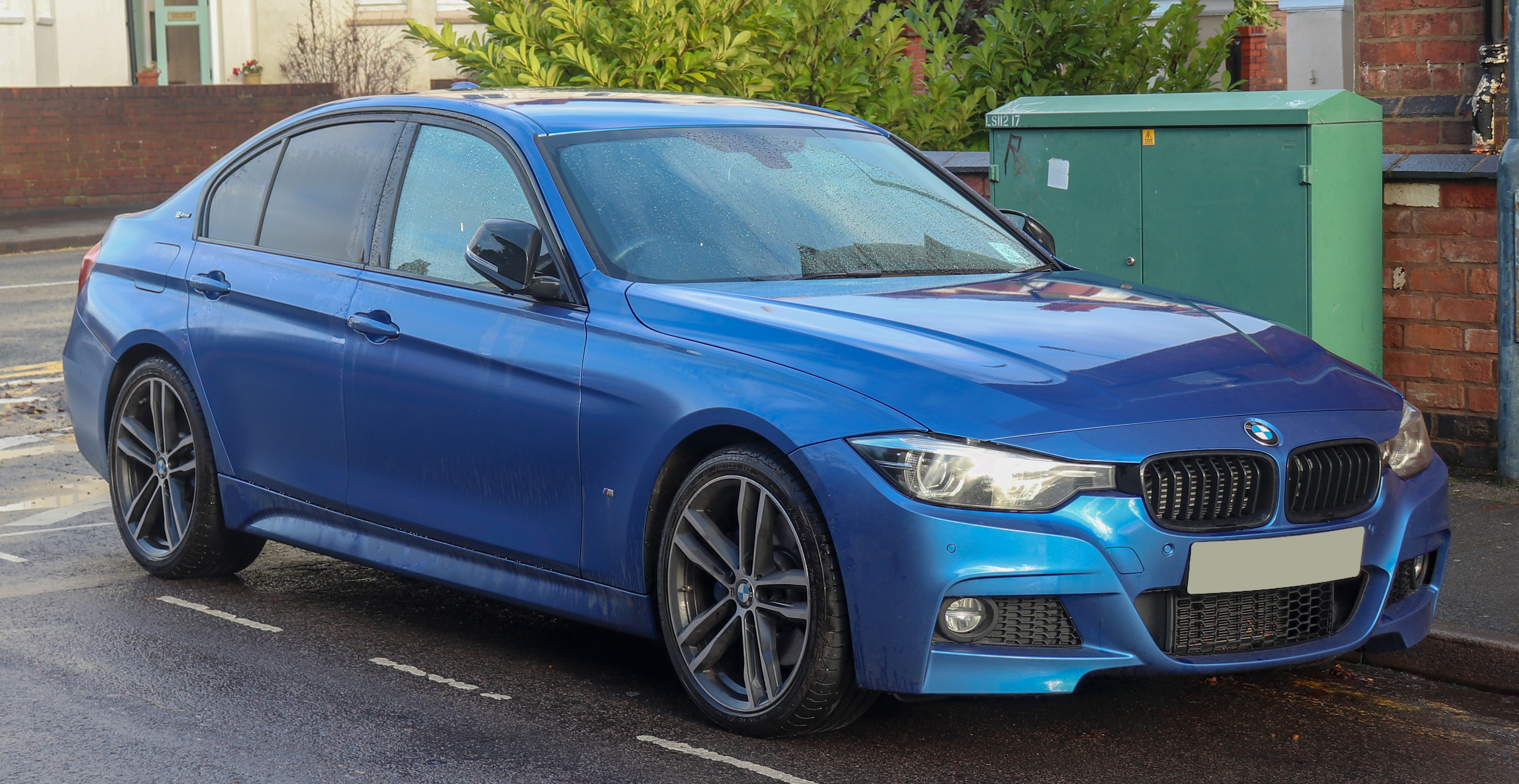 2018 BMW 330e M Sport Shadow Edition 2.0 Front